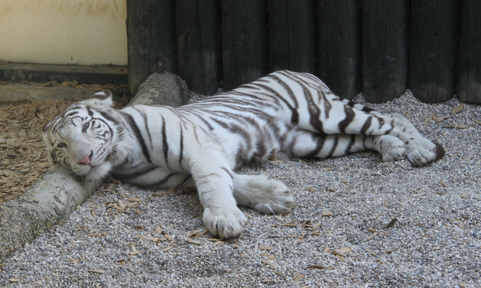 Tiger - white form in Zoo Liberec